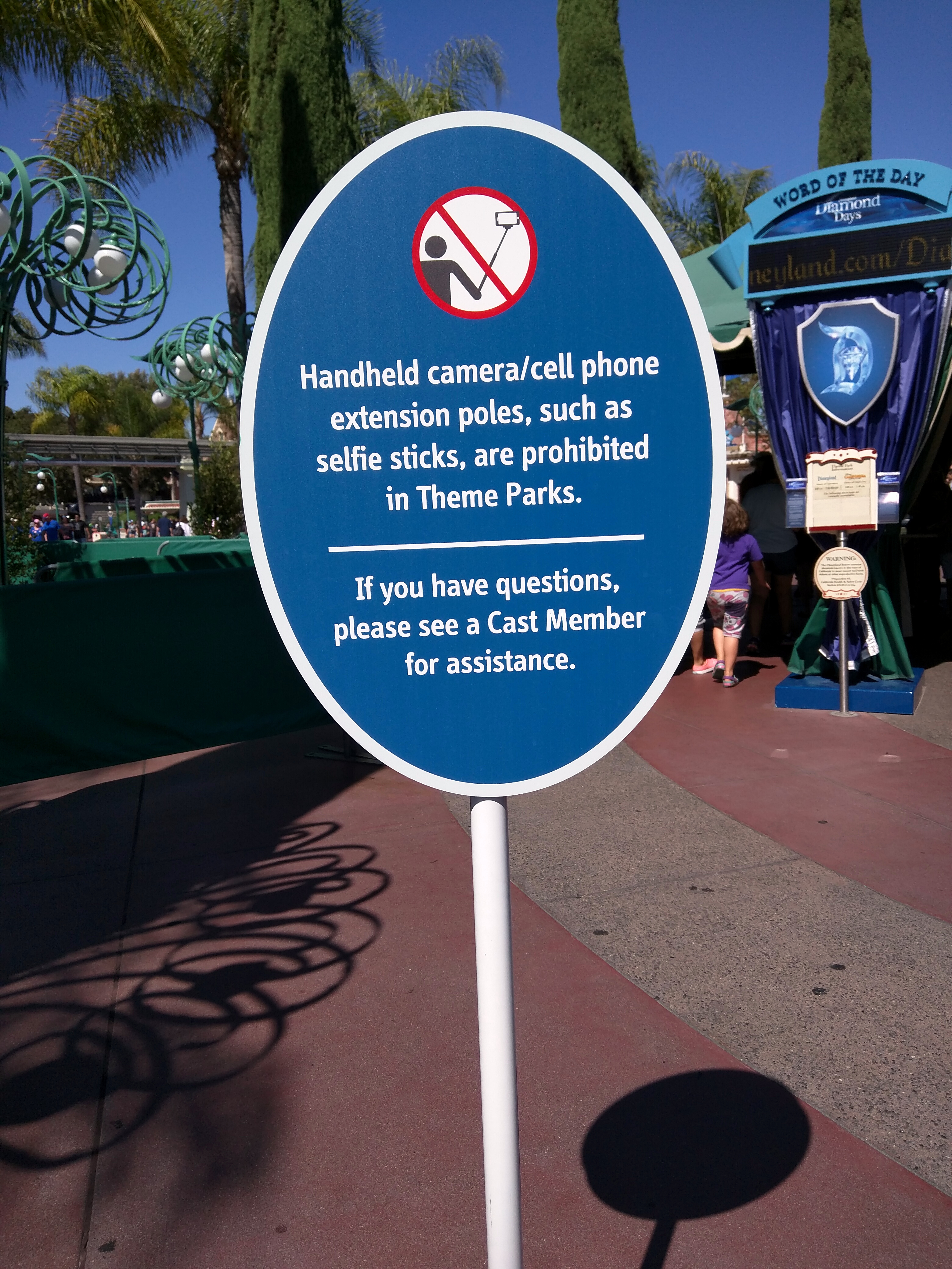 Selfie sticks prohibited sign, Disneyland, Anaheim, Orange County, California, USA